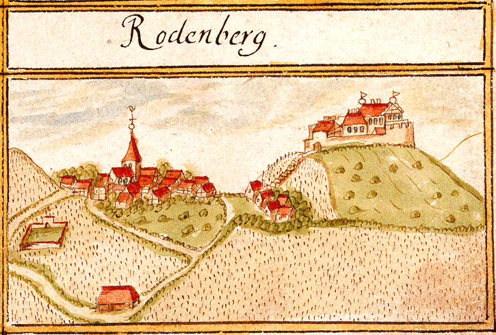 View of Rotenberg, Untertürkheim, from the forest register books created by Andreas Kieser